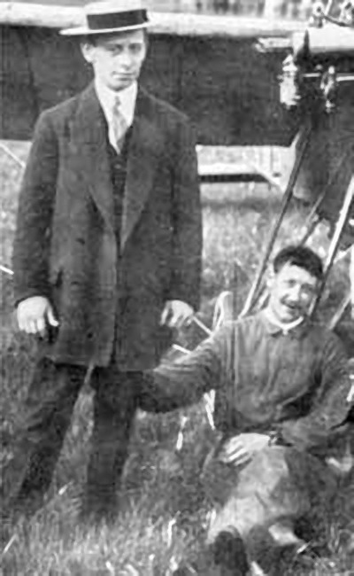 Emile Taddéoli and his mechanic René Grandjean in Zug (August 1913)